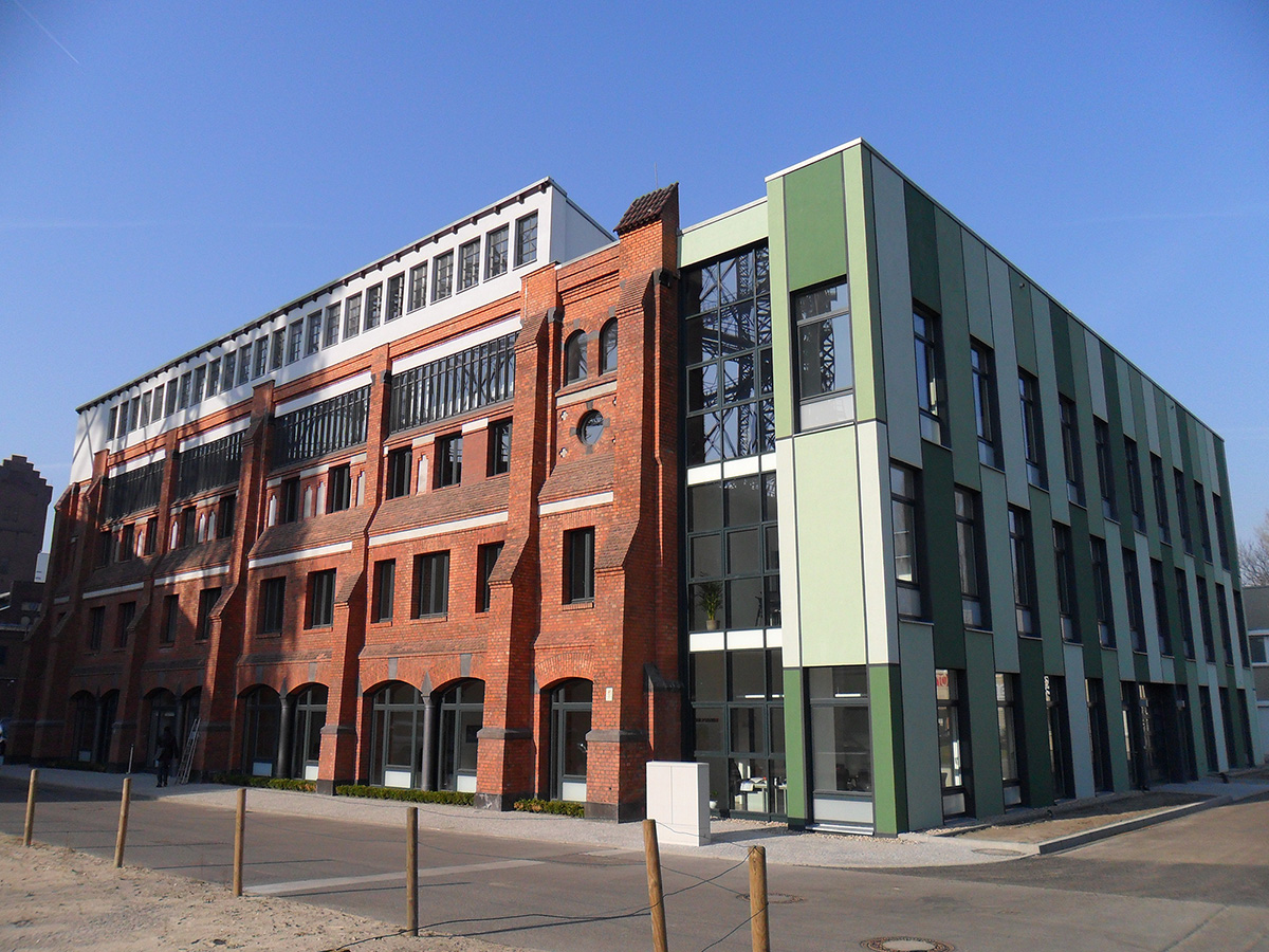 Building of the former gas plan in Berlin-Schöneberg (by Alfred Messel)